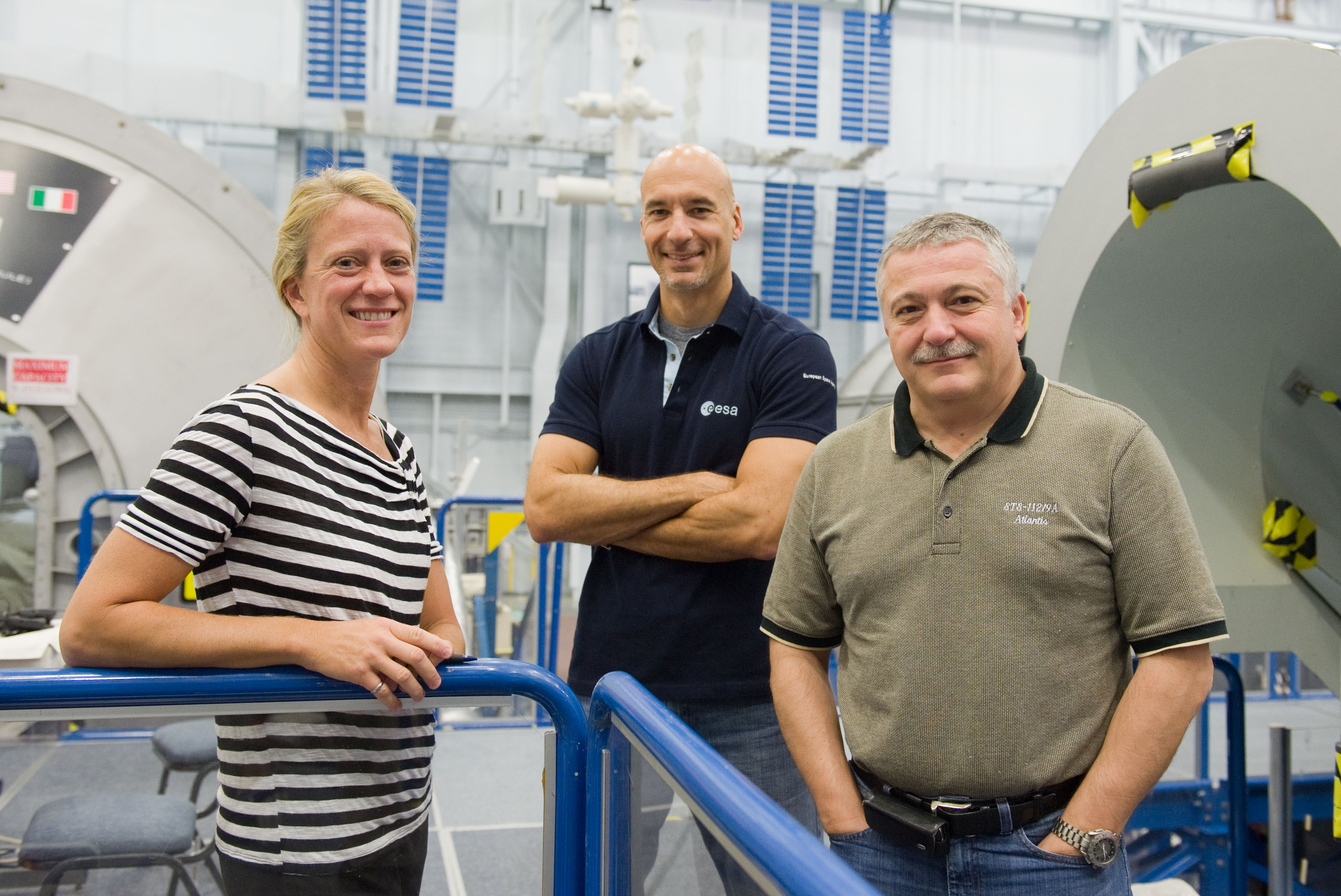 Russian cosmonaut Fyodor Yurchikhin (right), Expedition 36 flight engineer and Expedition 37 commander; along with NASA astronaut Karen Nyberg and European Space Agency astronaut Luca Parmitano, both Expedition 36/37 flight engineers, are pictured during an emergency scenario training session in the Space Vehicle Mock-up Facility at NASA's Johnson Space Center.